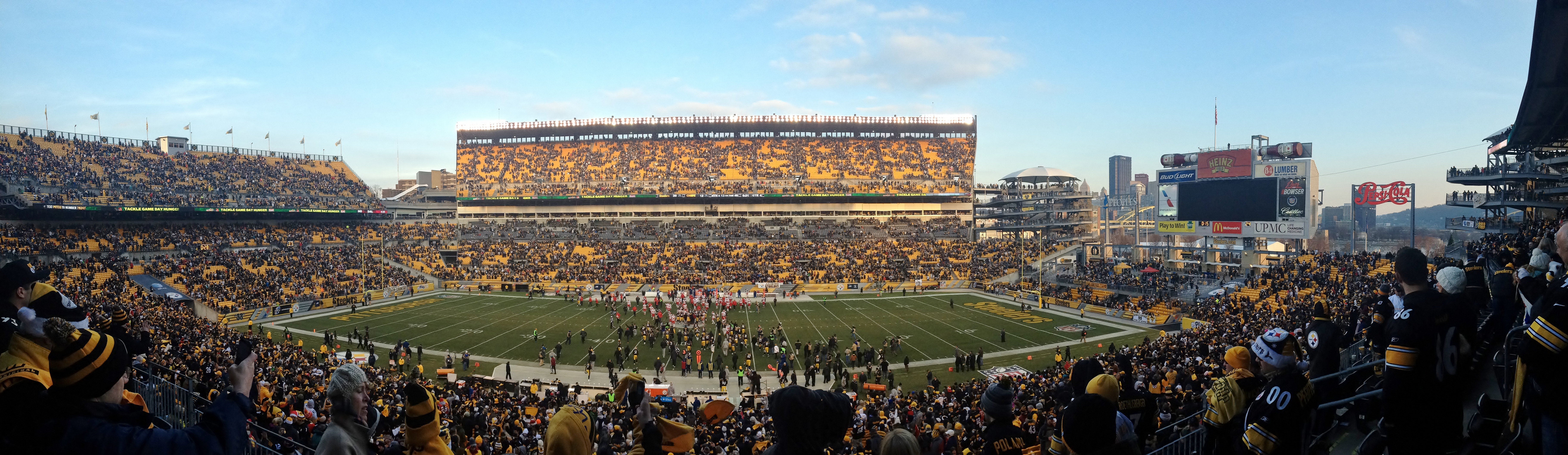 A panorama of Heinz Field in Pittsburgh, Pennsylvania. This panorama was taken at the end of the Pittsburgh Steelers/Kansas City Chiefs game on Sunday, December 21, 2014. The Steelers won 20–12.